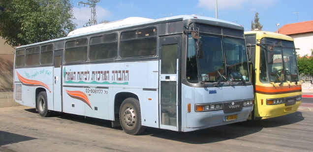 Armoured school buses used in Judea and Samaria